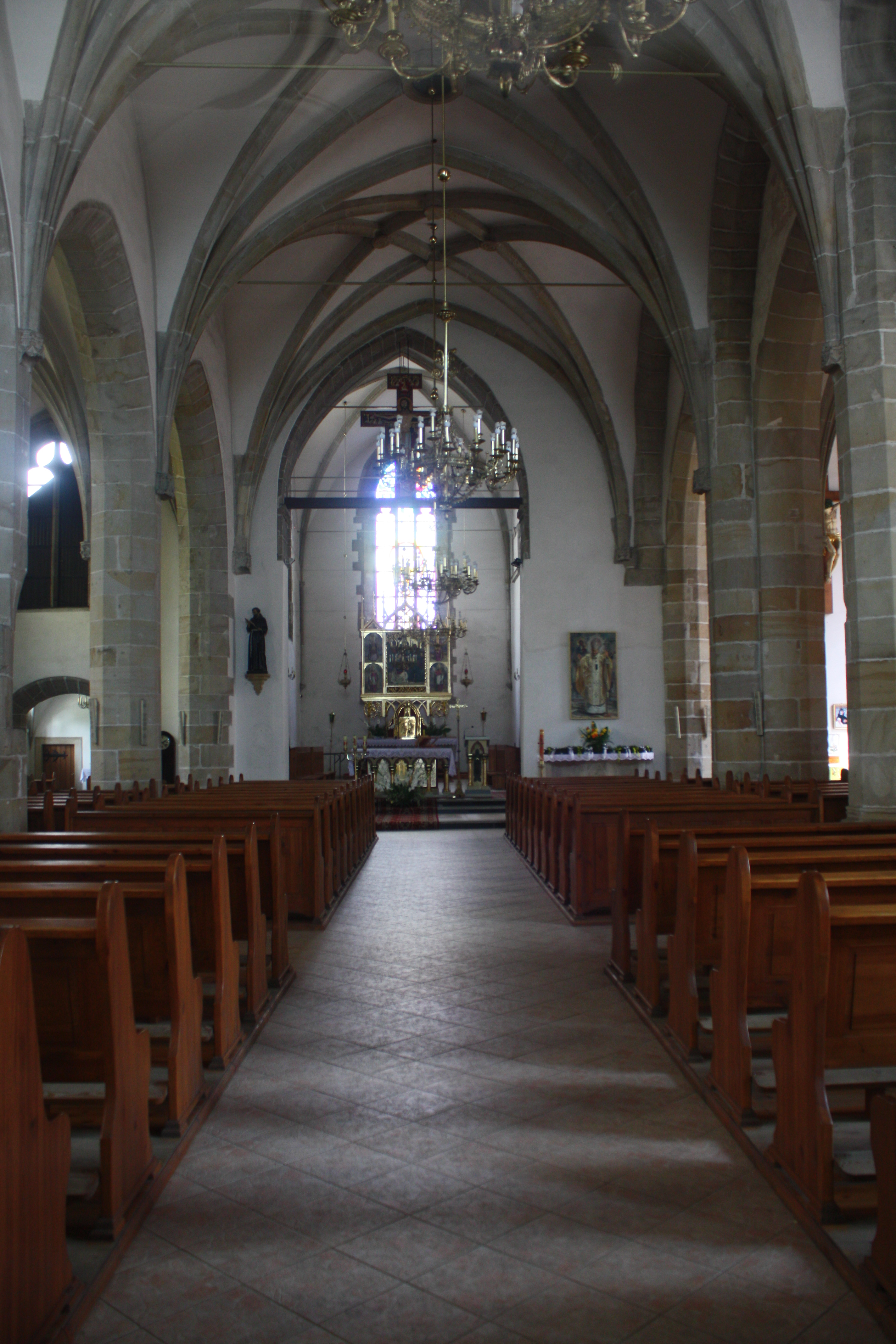 This photo of Lower Silesian Voivodeship was taken during Wikiexpedition 2013 set up by Wikimedia Polska Association. You can see all photographs in category Wikiekspedycja 2013. English | Polski | +/−